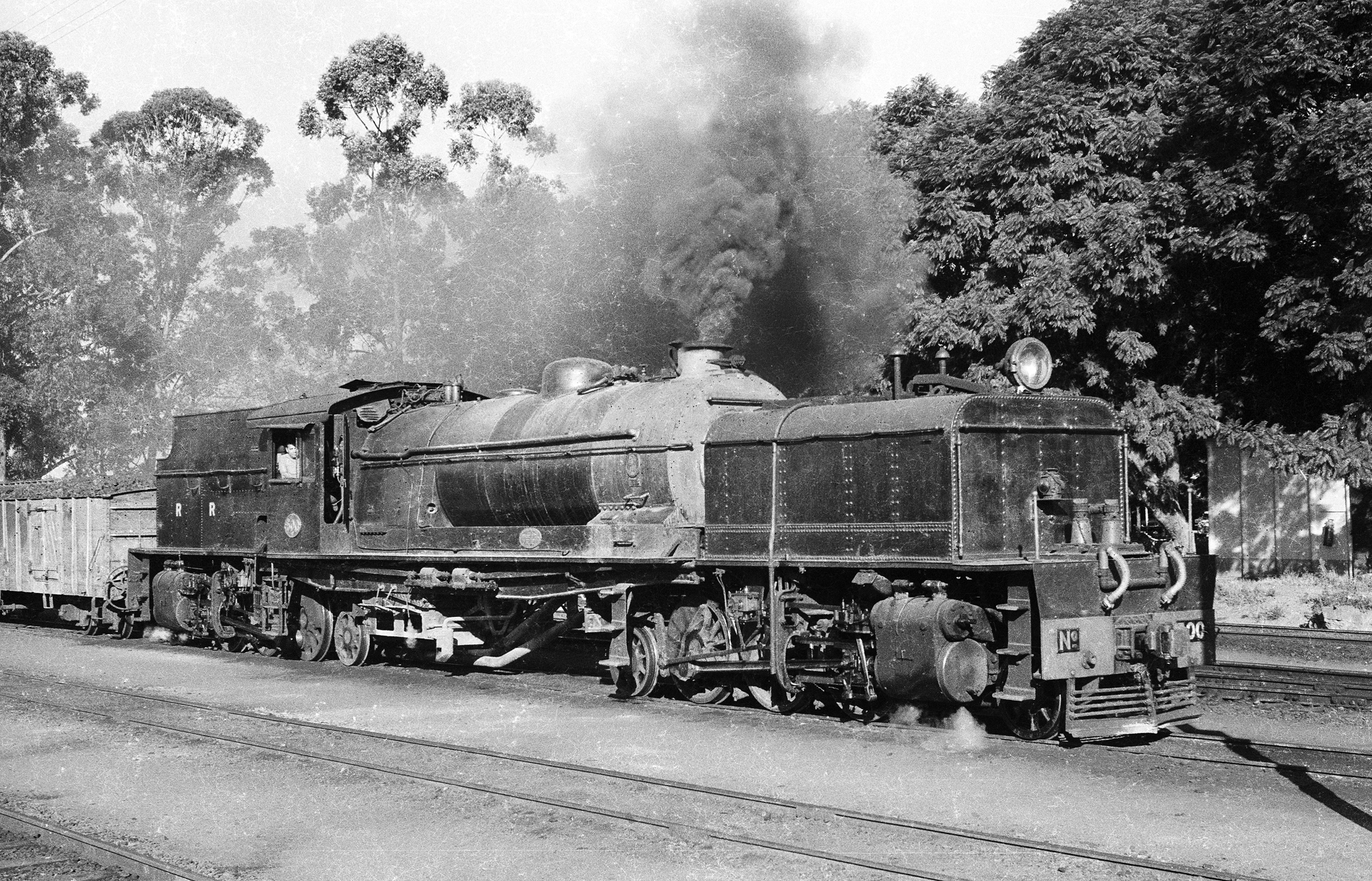 Rhodesia Railways 14th class no 500 on shunting duty at Salisbury Station